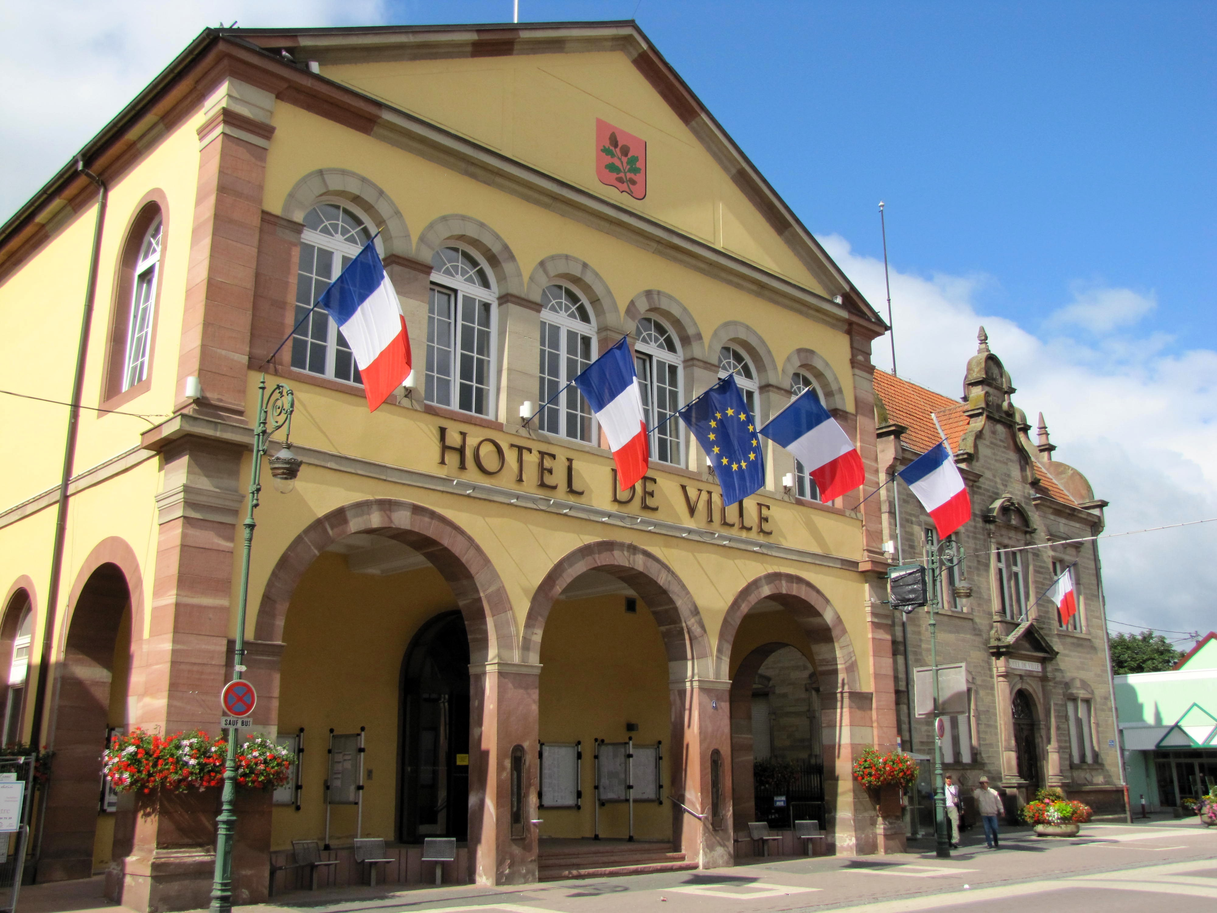 Alsace, Bas-Rhin, Brumath, Hôtel de ville (1844) et tribunal (1903). This building is indexed in the Base Mérimée, a database of architectural heritage maintained by the French Ministry of Culture, under the references IA00119210 and IA00119209 .